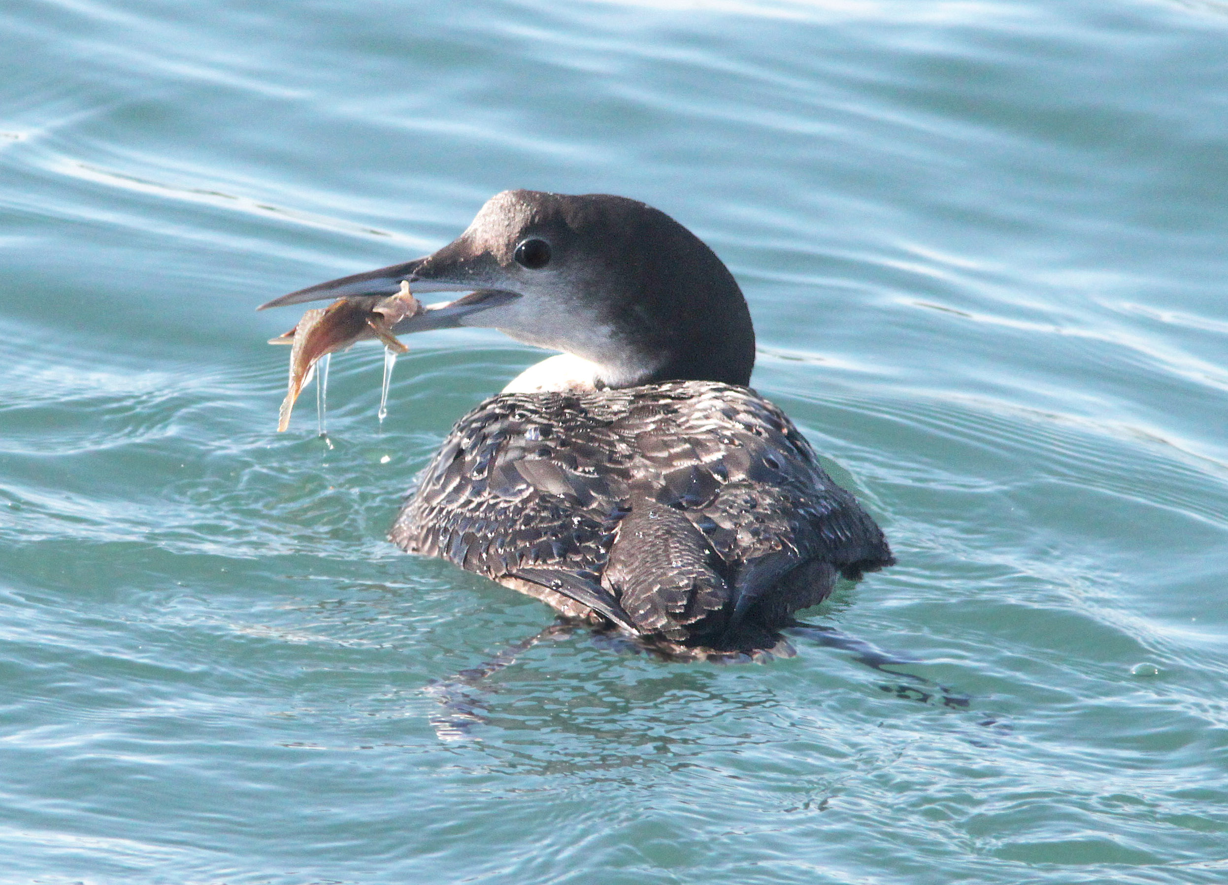 ABA AREA BIRDS: My Photo "Life List"